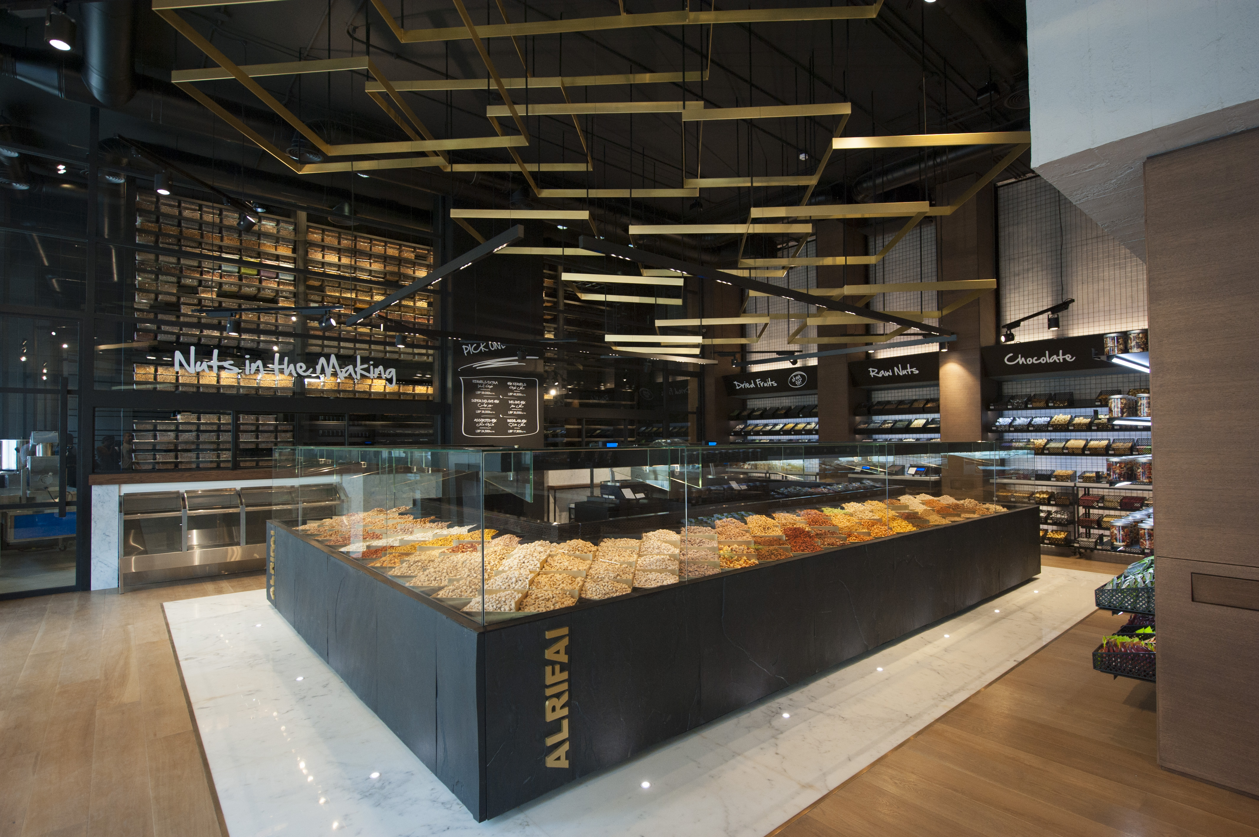 Alrifai flagship store in Mkalles under the new redesign